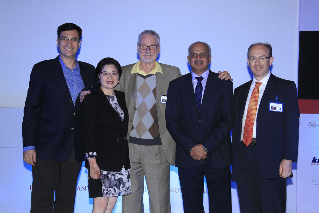 Co-Founder of the European Mentoring and Coaching Council ("EMCC"), Sir John Whitmore with an active member of the EMCC and Author, Nigel Cumberland. Together in India in June 2013. Along with the President of the International Association of Coaching ("IAC"), Krishna Kumar, IAC VP, Philip Beddows and IAC Master Assessor, Bonnie Chan.